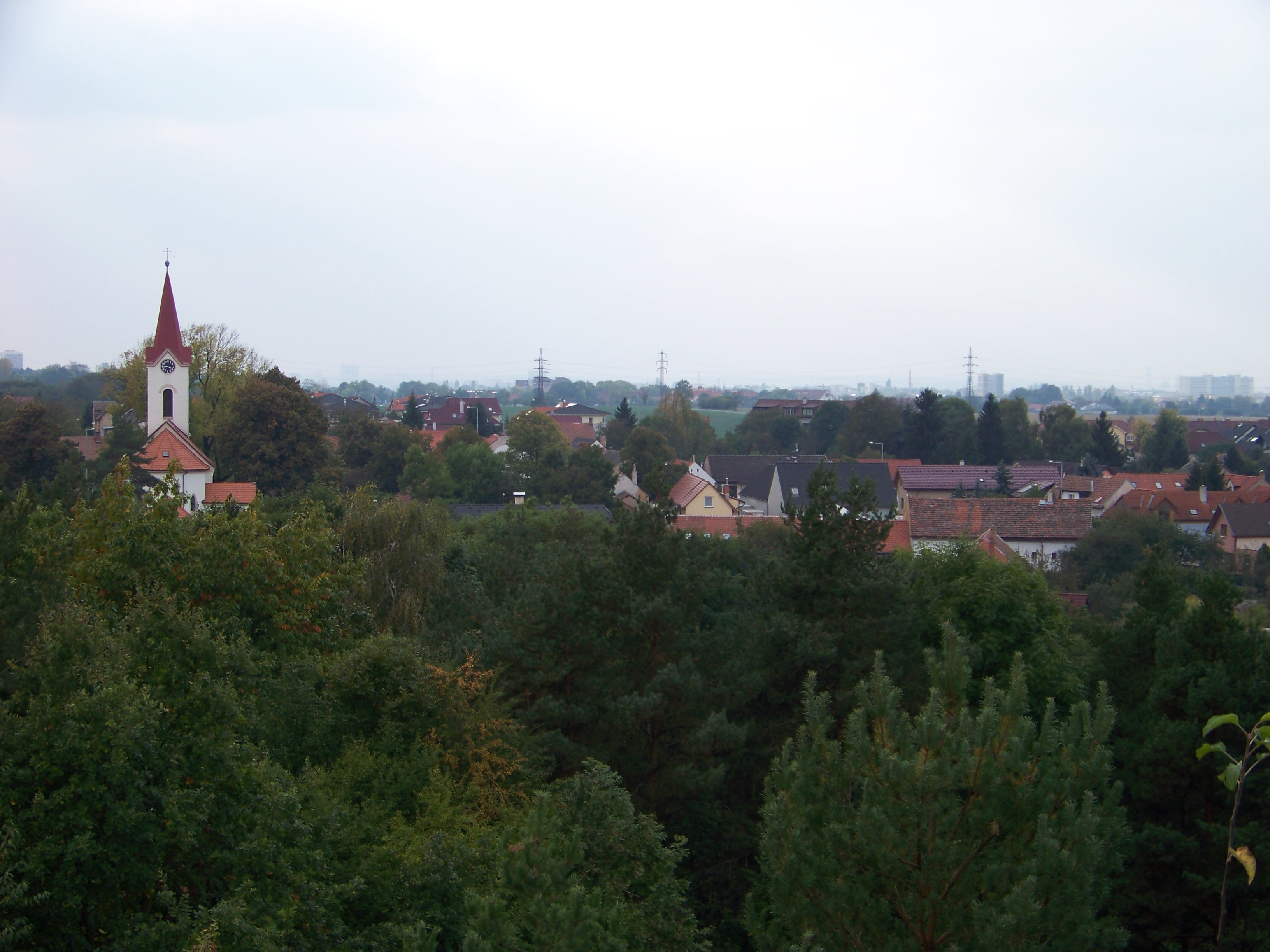 Prague-Dubeč, Czech Republic. A view of Dubeček from Rohožník hill.